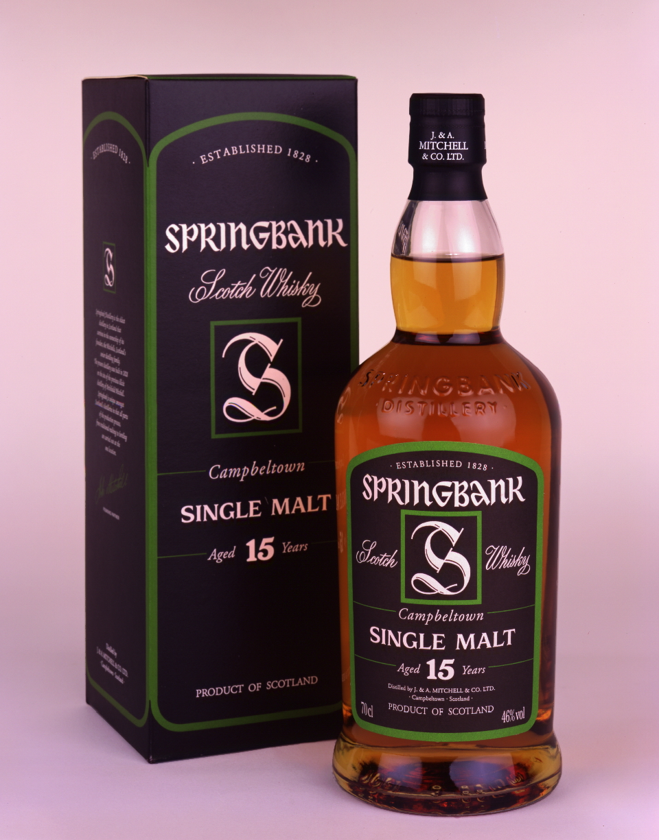 A bottle of Springbank Aged 15 years whisky